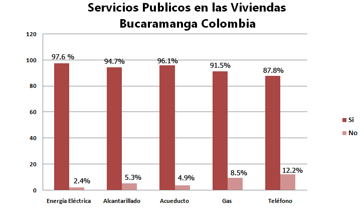 Datos servicios publicos de Bucaramanga